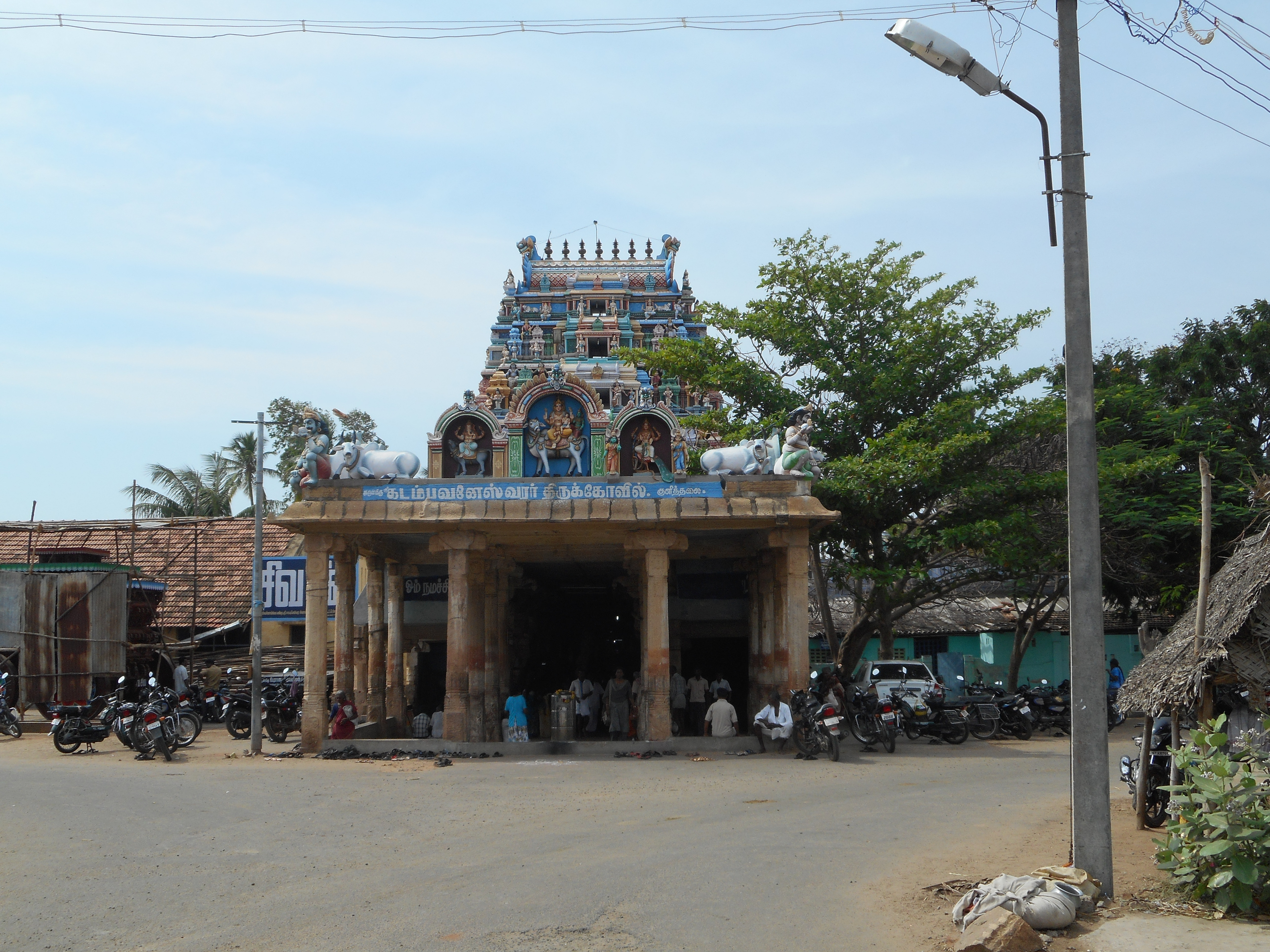 Kulitalai kadambavanesvarar temple karur district tamilnaduகரூர் மாவட்டம் குளித்தலை கடம்பவனேஸ்வரர் கோயில் முகப்பு